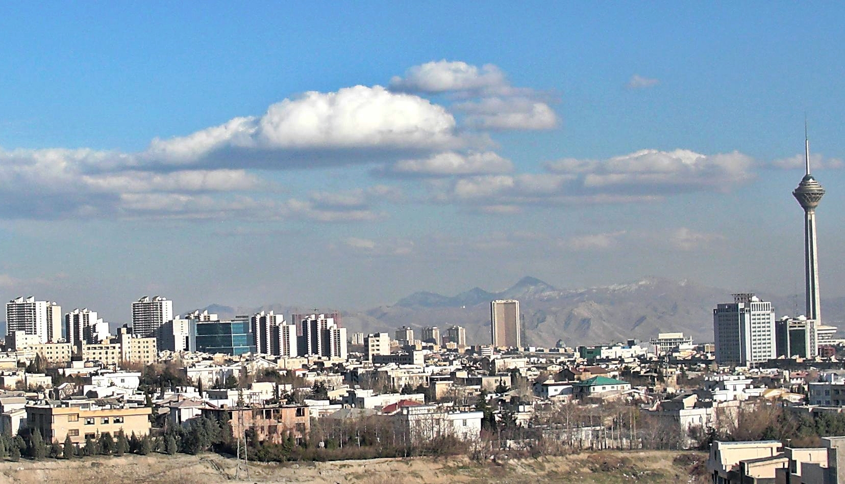 Tehran panorama in winter. (in right part of this panorama photo you can see Milad Tower and Tehran International Tower.)